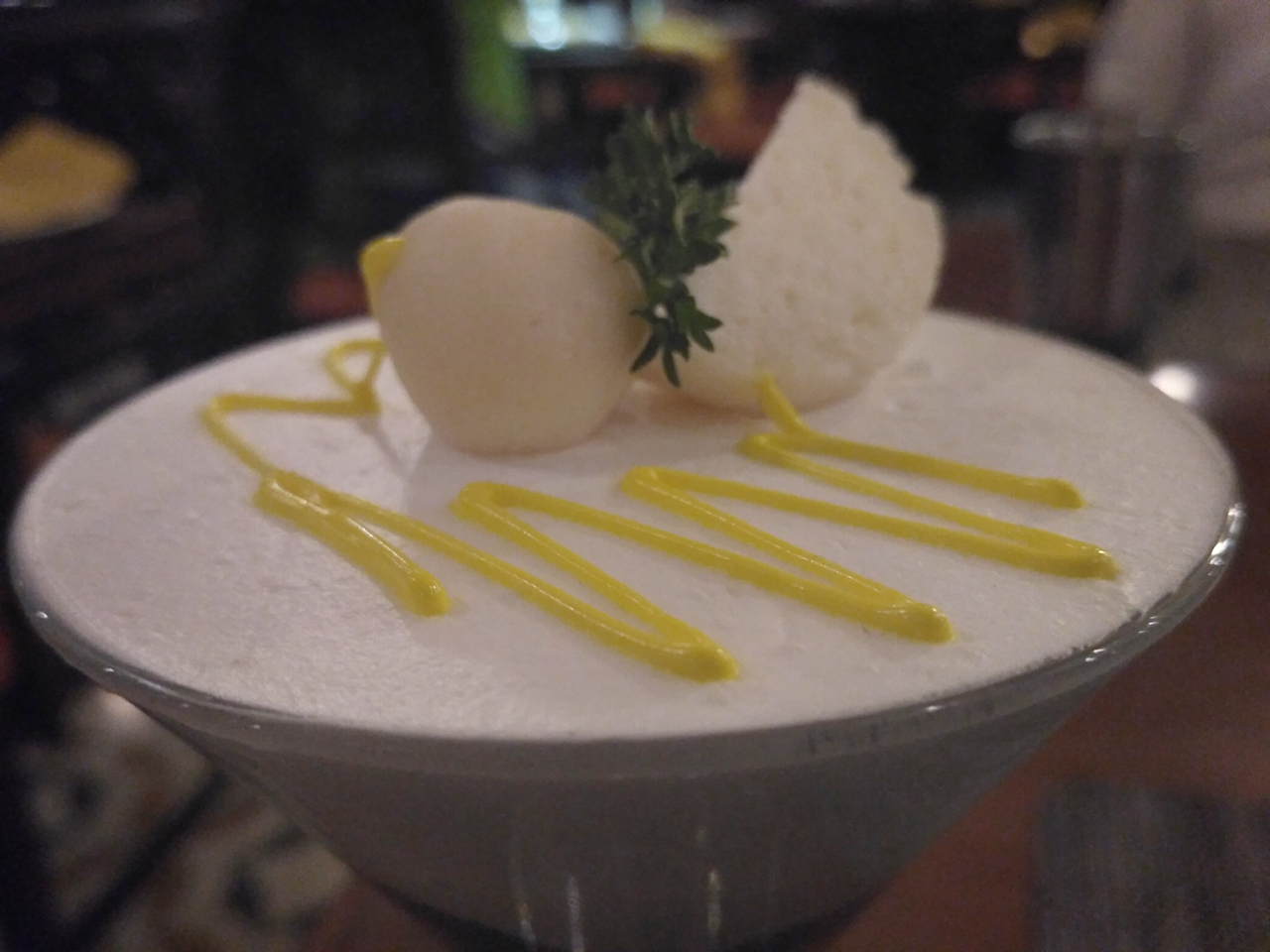 Rasmalai Dessert